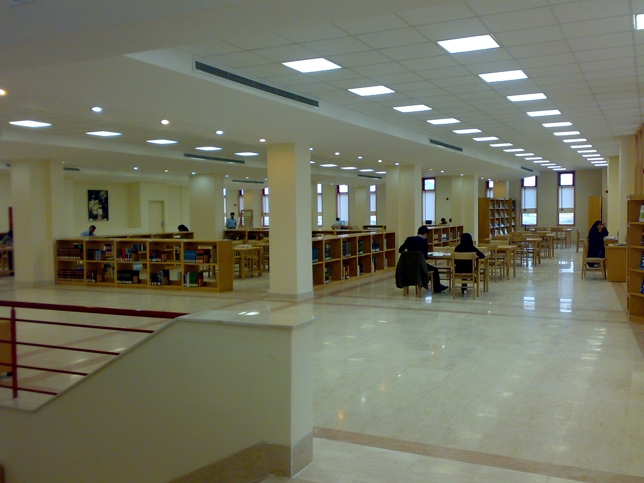 Institute for Advanced Studies in Basic Sciences in Zanjan(IASBS) ,مرکز تحصیلات تکمیلی در علوم پایه